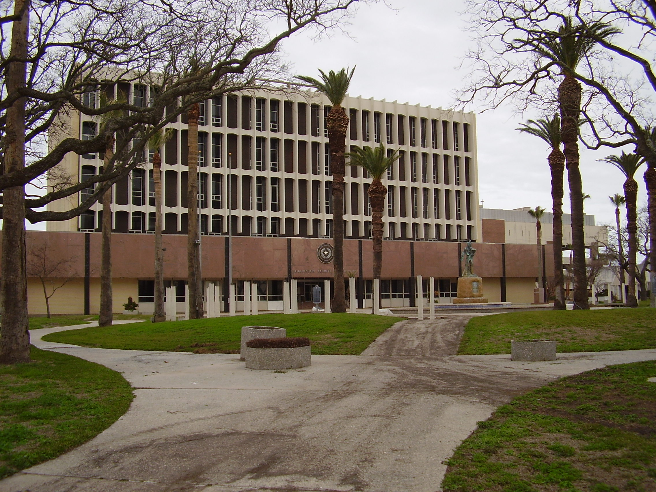 Former Galveston County Courthouse